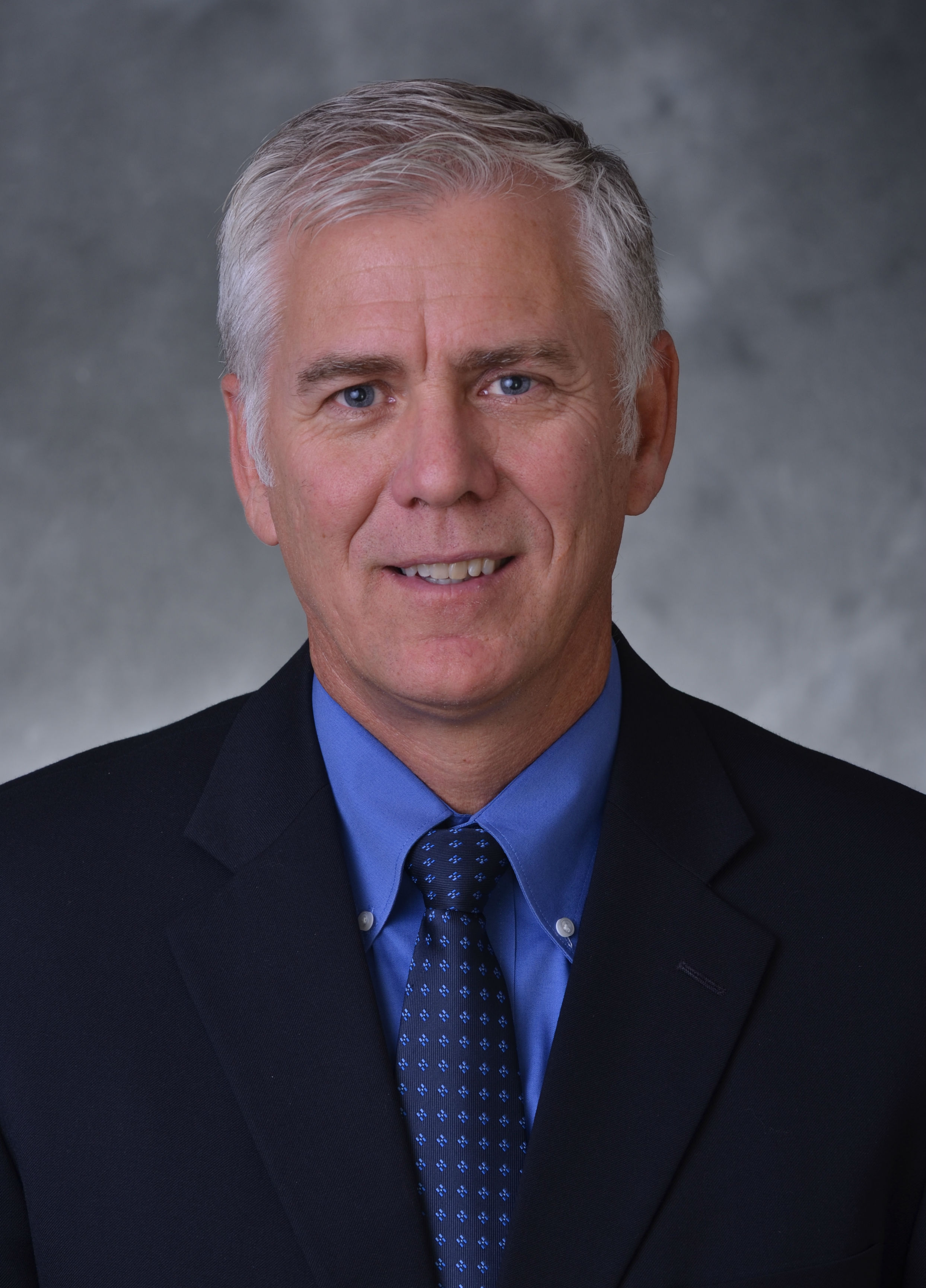 Bruce Hanna head shot